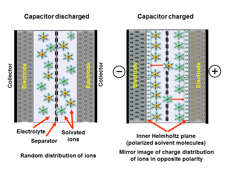 distribution of ions in a discharged/charged supercapacitor